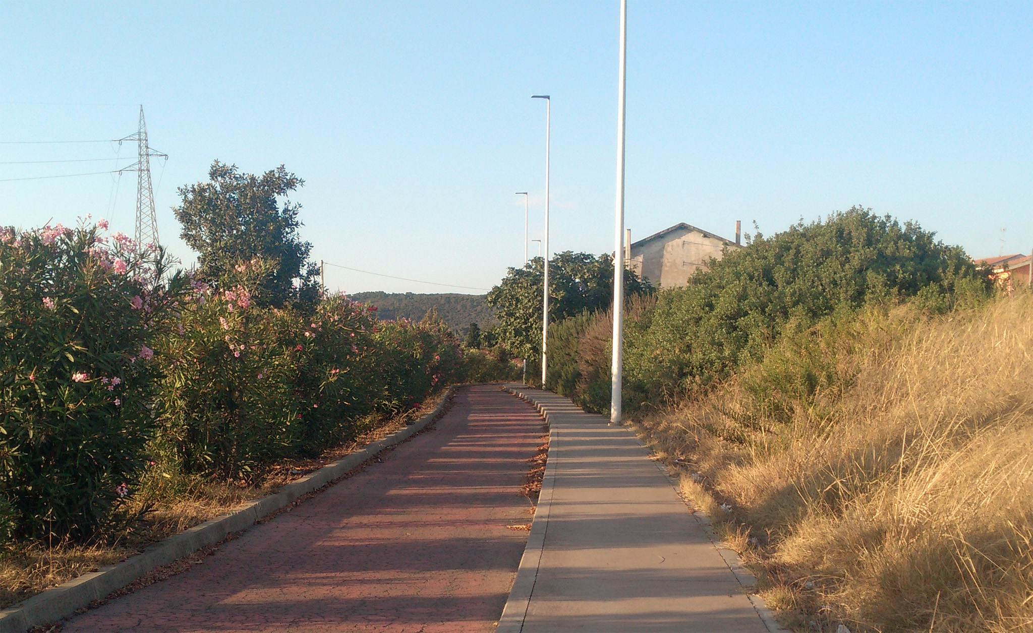 The former railway station of Serbariu in Carbonia, Sardinia, Italy, along the San Giovanni Suergiu-Iglesias railway, this one closed in 1974